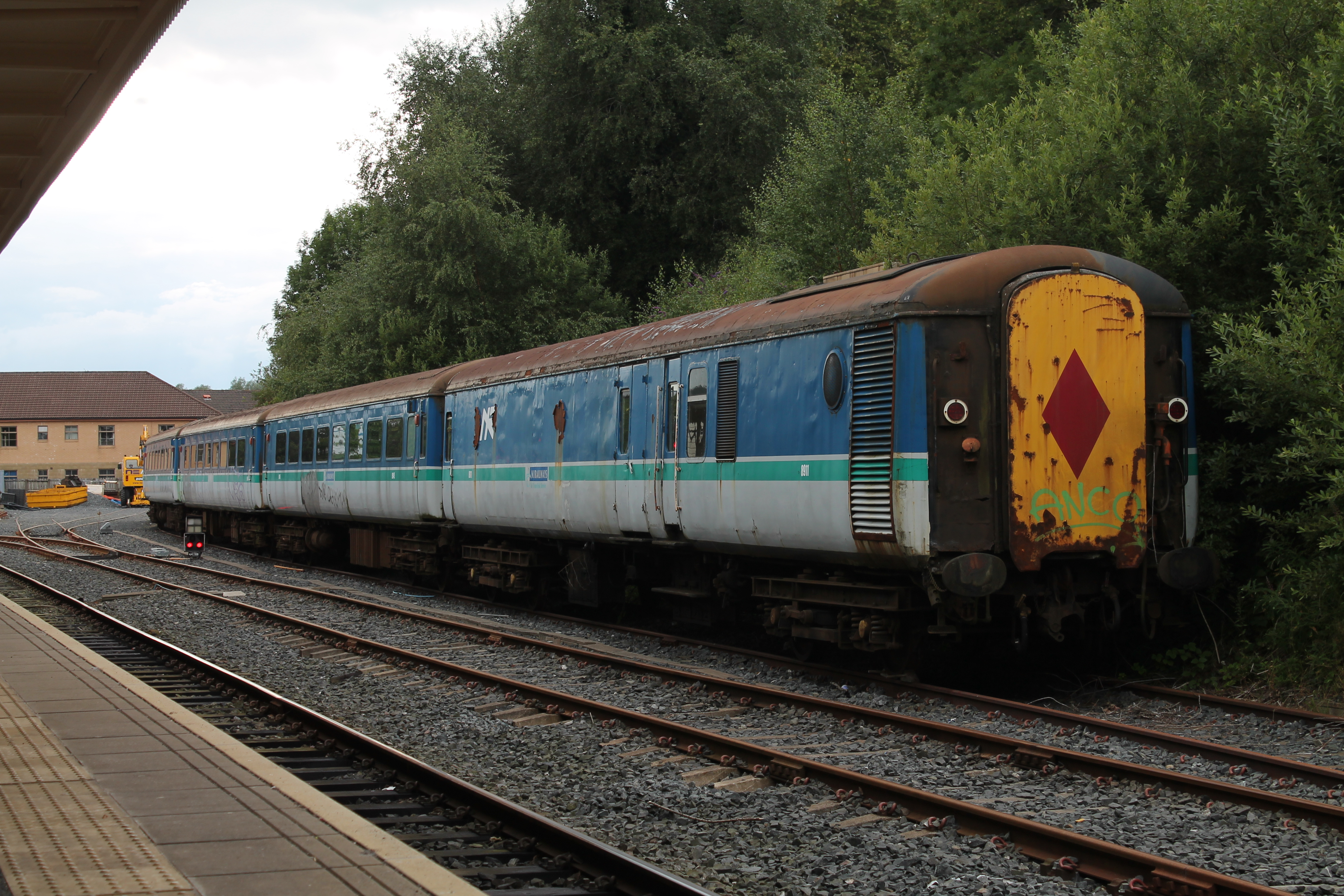 5 Ex-Gatwick MkII's at Lisburn station